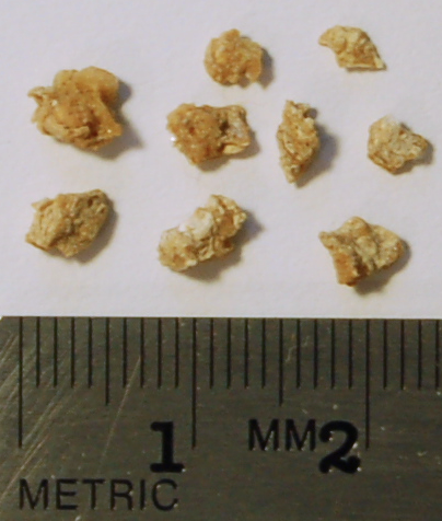 These are some of the larger passed fragments of a 1-cm kidney stone that was blasted using lithotripsy. The stone was composed of calcium oxalate.